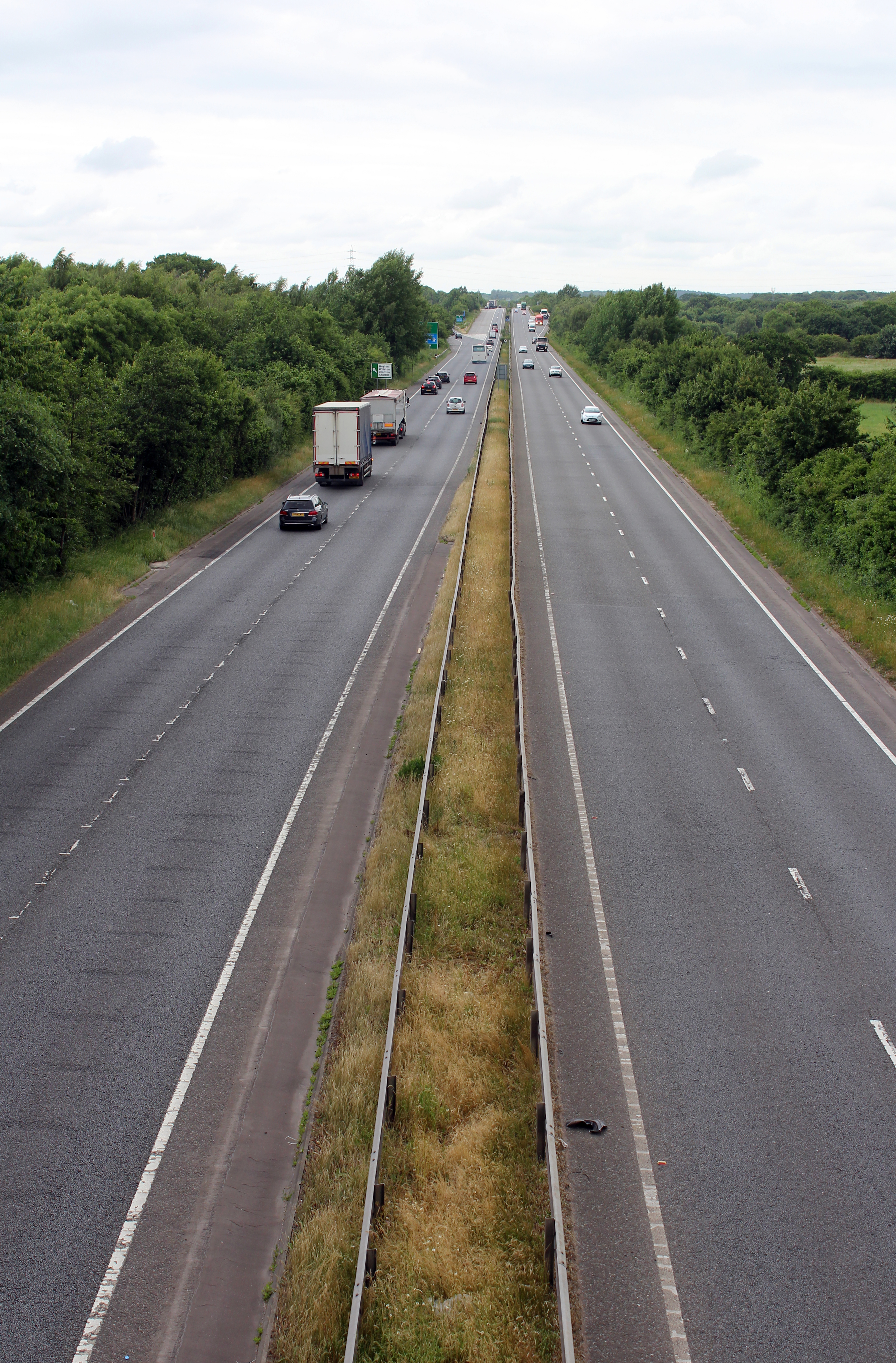 View roughly north from the Water Lane bridge in Tarbock.